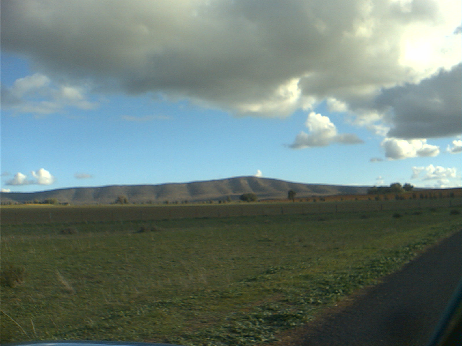 Weddin Mountains National Park from Eualdrie Road Looking South.